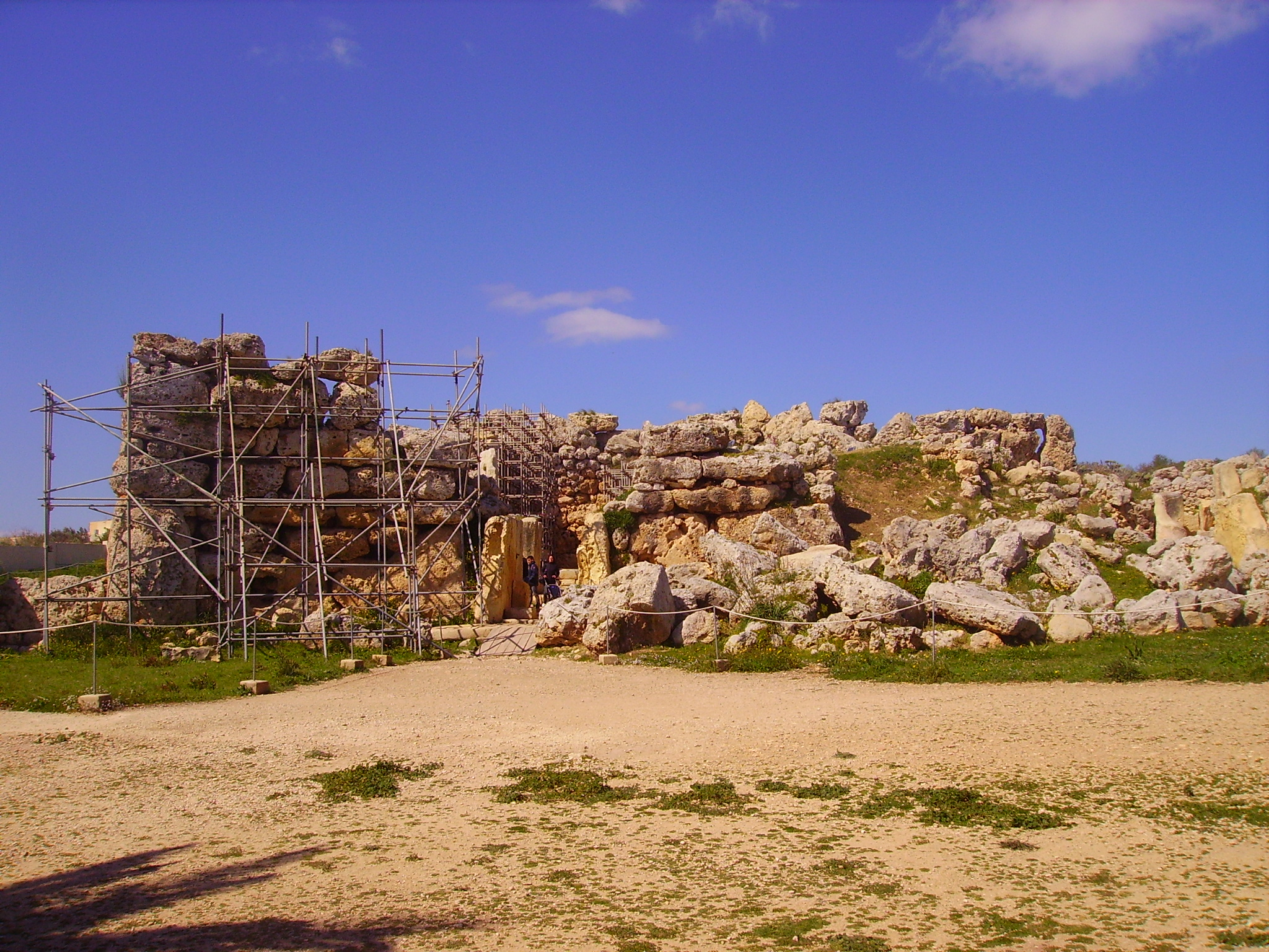 Ggantija Temple, Xaghra